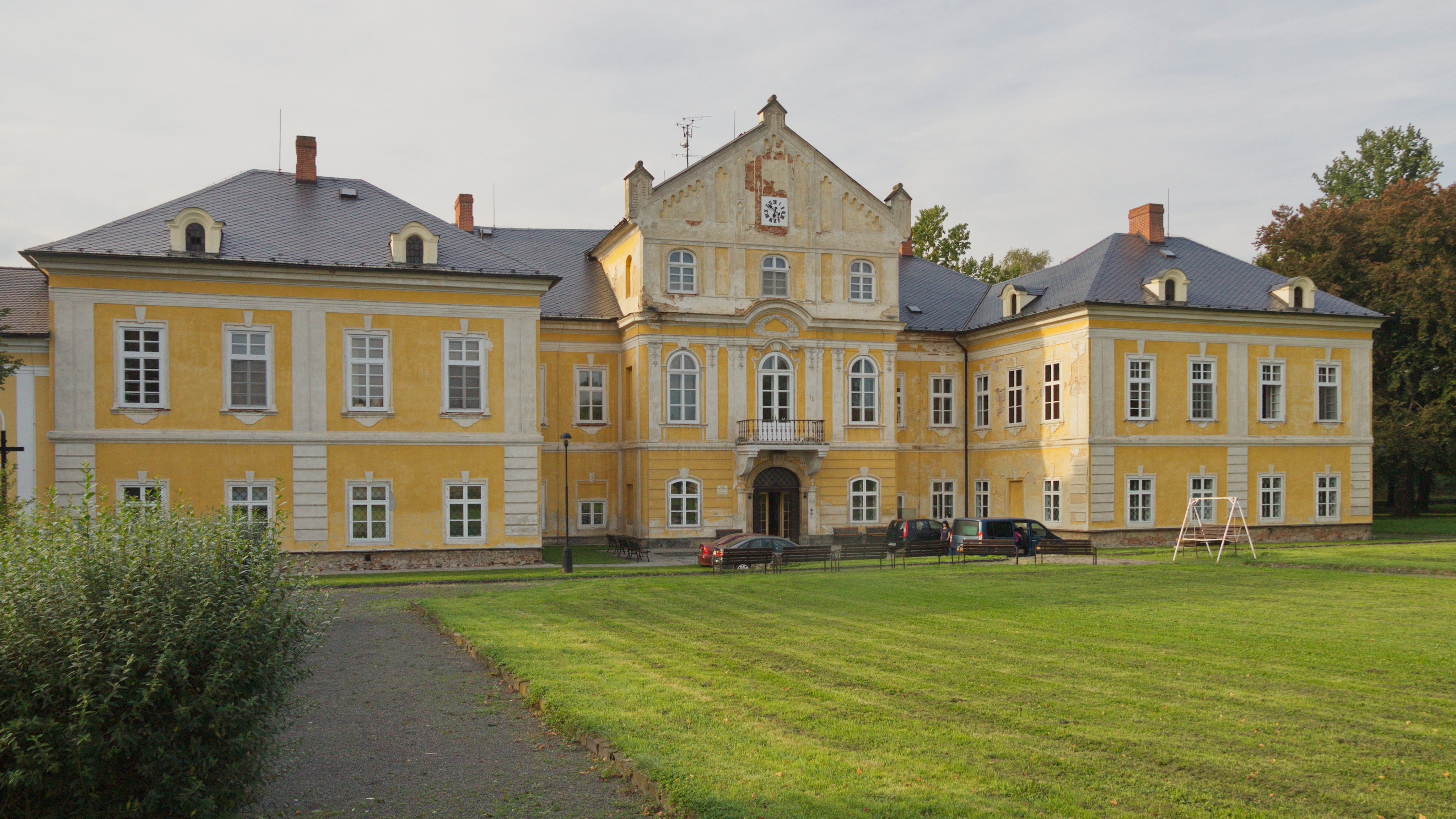 Castle, Nová Horka, Studénka. Moravian-Silesian Region, Czech Republic.